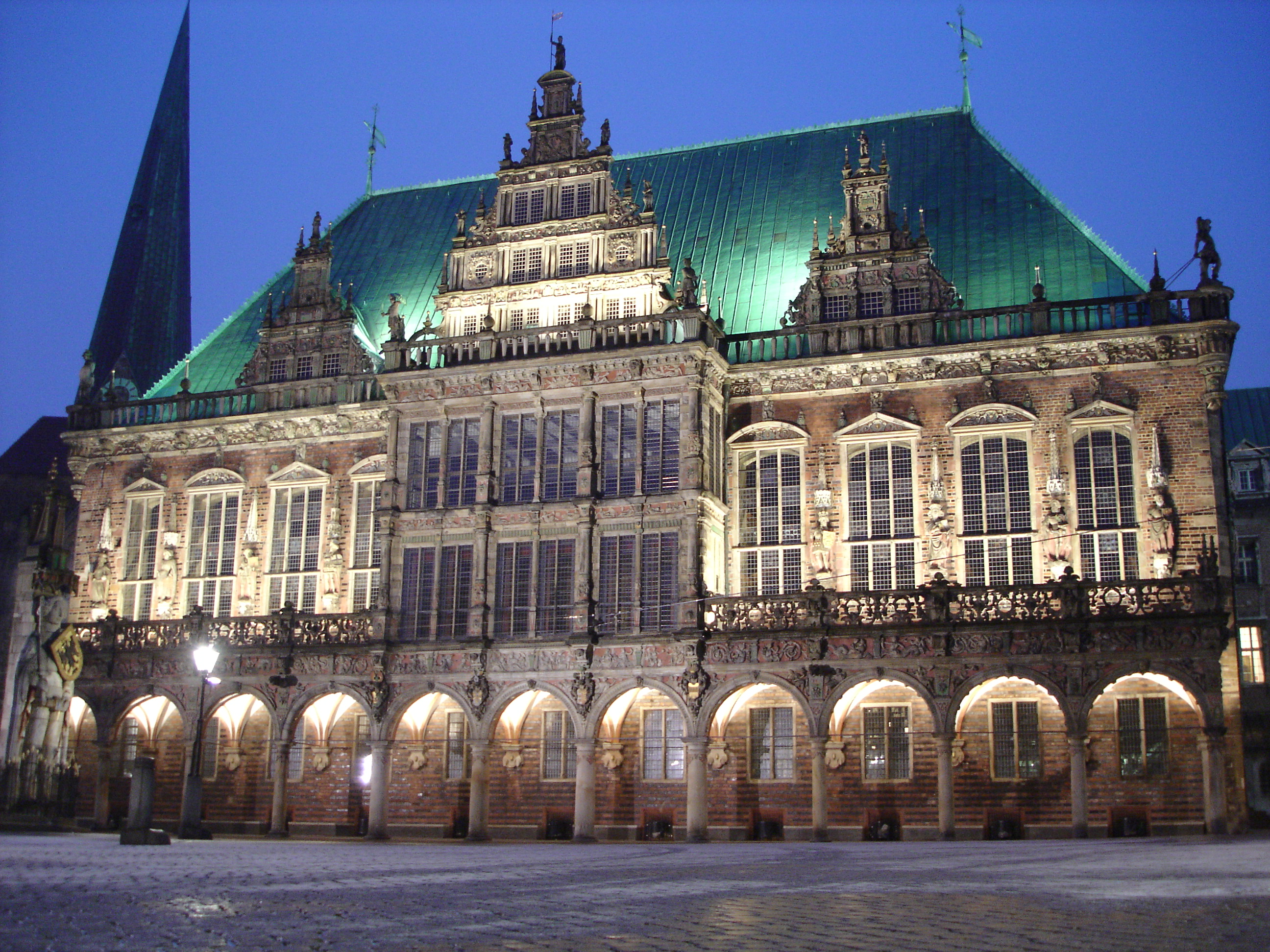 Town Hall of Bremen in the early morning.